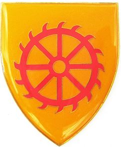 SADF Regiment de Wet emblem